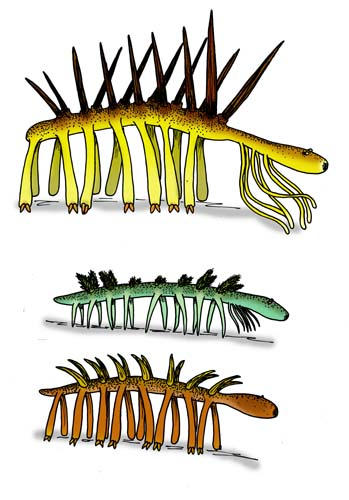 Reconstructions of the various species of the lobopod genus Hallucigenia, from top, H. sparsa, H. hongmeia, and H. fortis